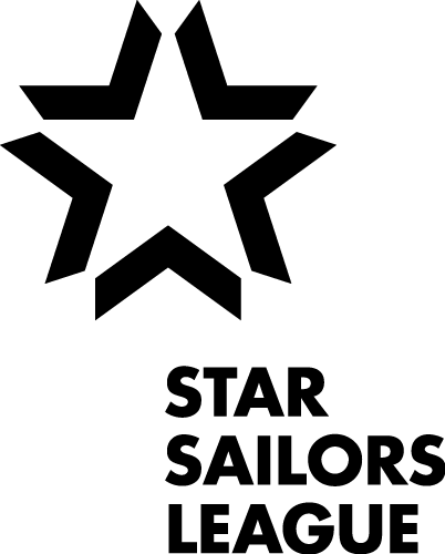 Star Sailors League logo